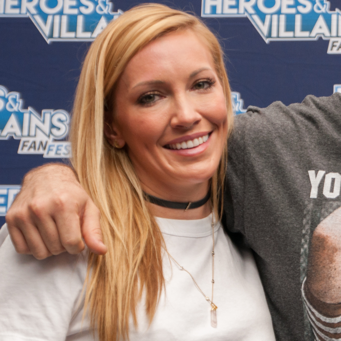 Katie Cassidy, Josh Segarra and Emily Bett Rickards at Heroes & Villains Fan Fest 2017.